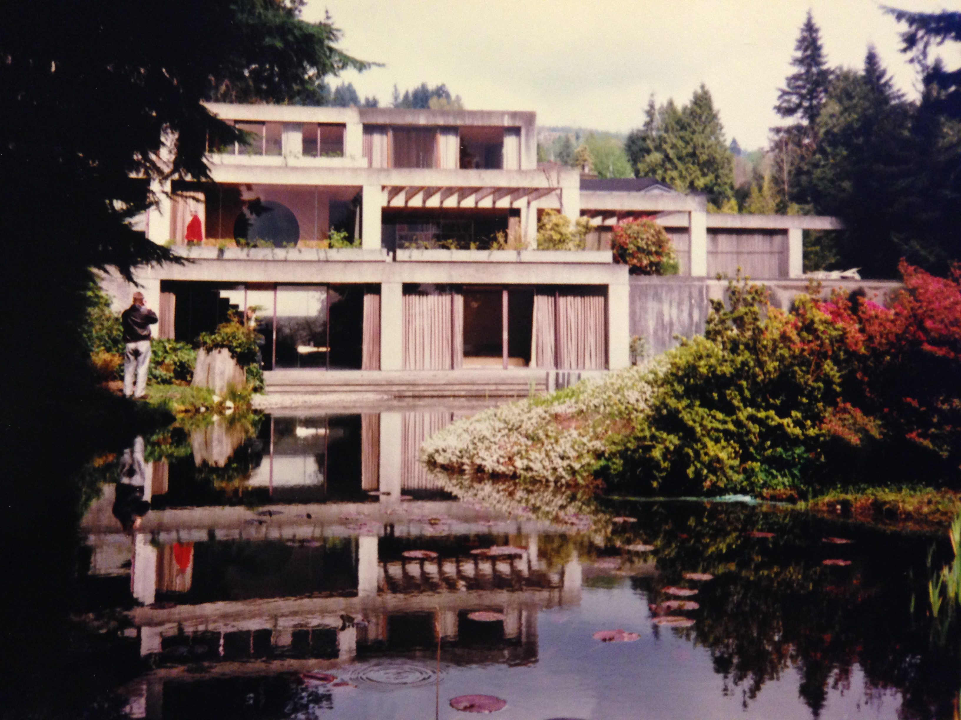 Helmut & Hilda Eppich house. Designed in 1972 by Arthur Erickson Architects